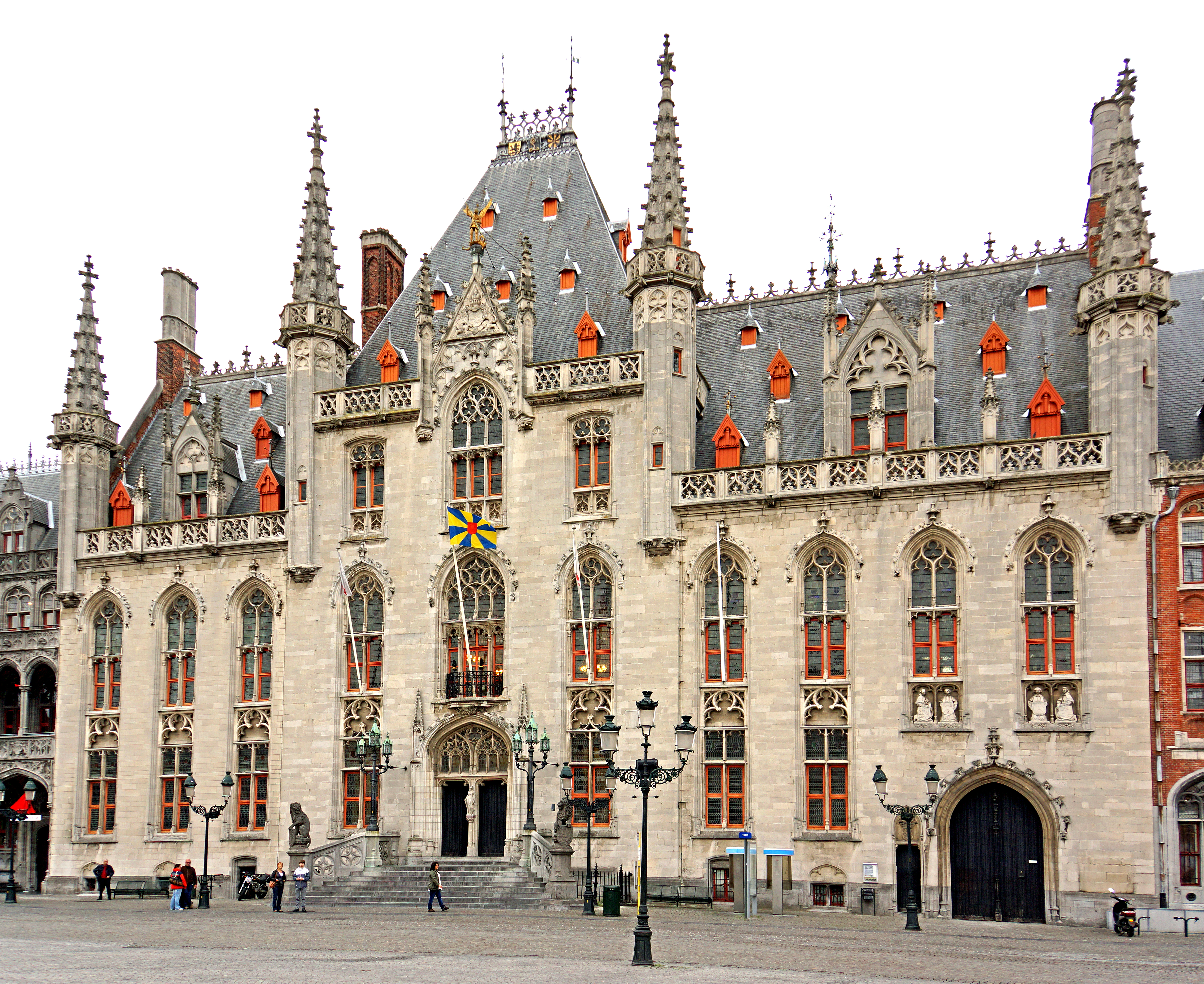 PLEASE, NO invitations or self promotions, THEY WILL BE DELETED. My photos are FREE to use, just give me credit and it would be nice if you let me know, thanks. The Provincial Court is the best example of how Bruges was renovated in neo-gothic style during the second half of the 19th century. After the destruction of the water halls in 1787 a new complex of houses was built in classicist style. This style was considered very modern in a town that was basically built in late-gothic style. In 1850 the provincial government bought the complex, enlarged it and made it the seat of the provincial institutions. The members of the catholic and traditionalist political parties rejected the building as 'unfit for the beautiful gothic Bruges'. In 1878 a fire destroyed most of the building. Different groups took their chance to have it reconstructed in neo-gothic style, the 'house'-style of the catholic party. On the left side of the complex is now the house of the Governor of the Province of West-Flanders. The red brick building on the right side is the Post Office of Bruges.